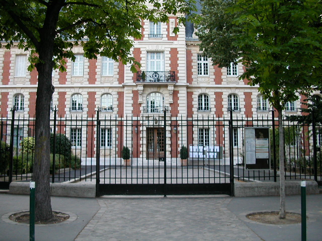 Main building of the Lycée Pasteur (Neuilly-sur-Seine, Hauts-de-Seine)